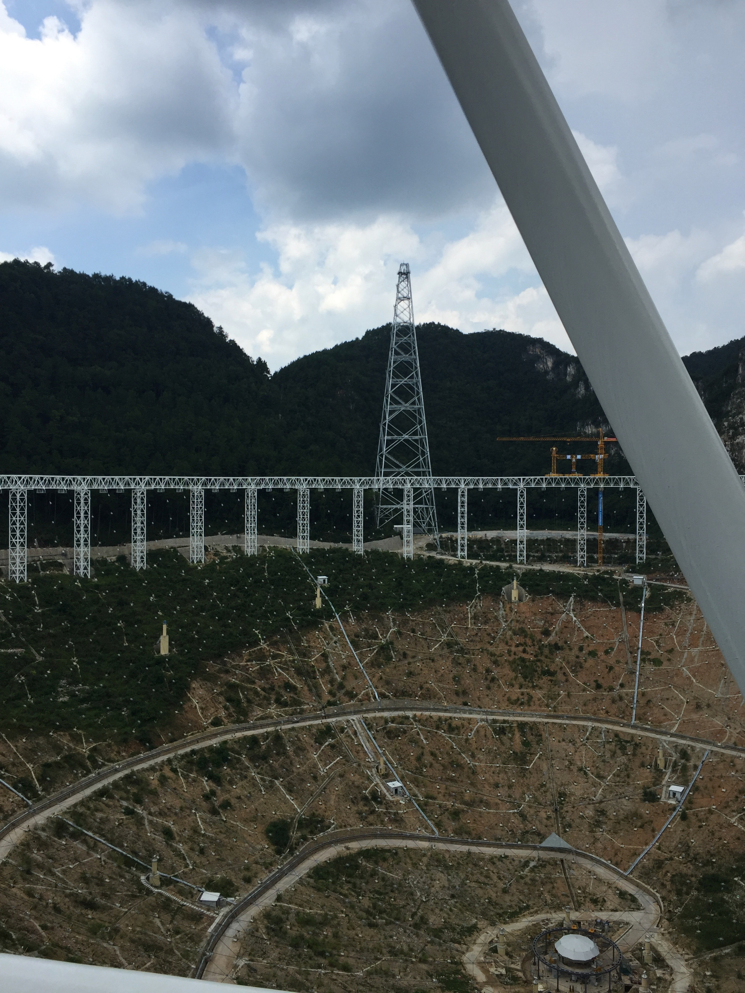 August 2015, the telescope was still under construction. Fist reflection plane just assembled.